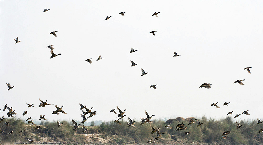 Northern Pintail (Anas acuta) at Purbasthali in Burdwan District of West Bengal, India.